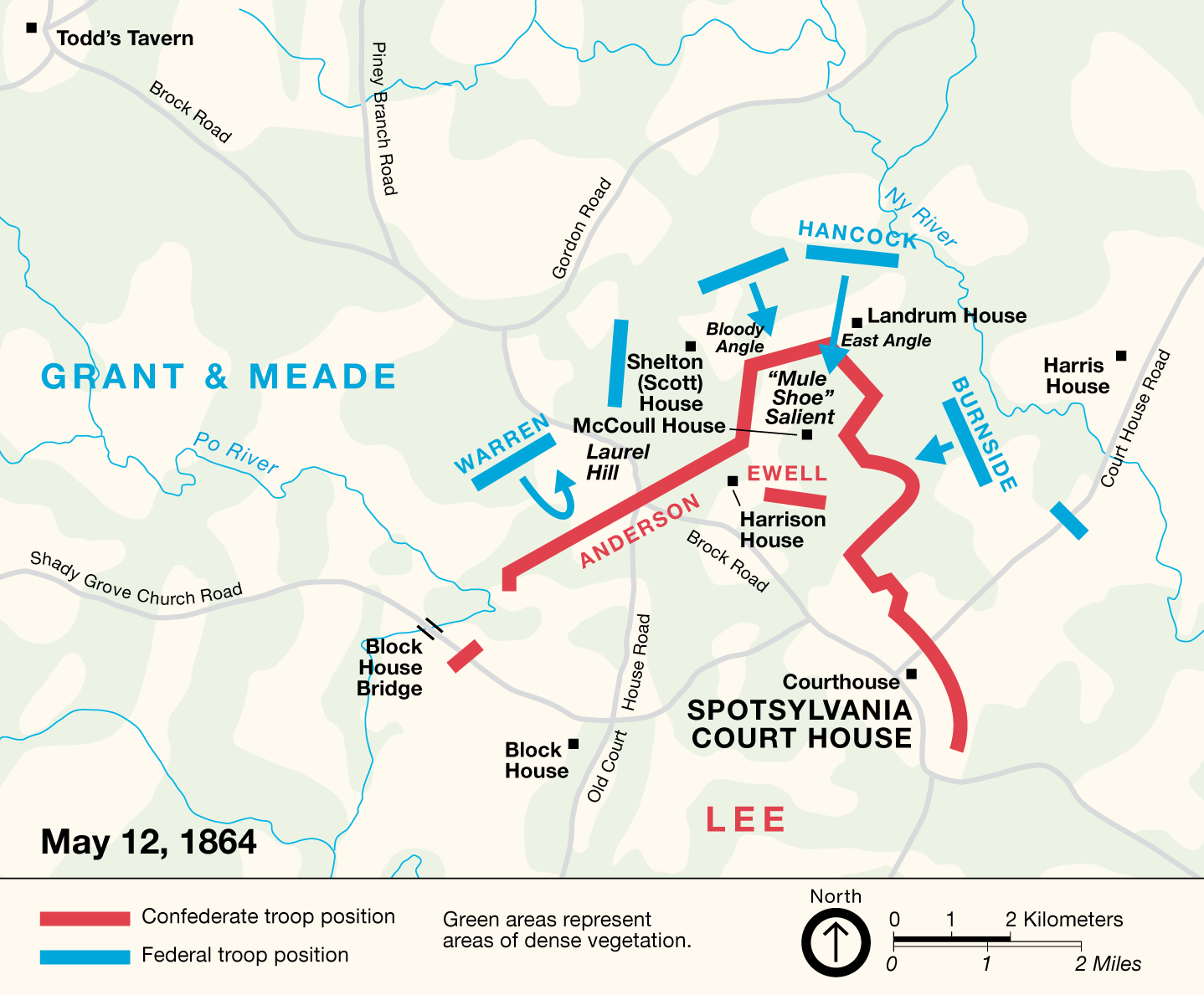 National Park Service map of the American Civil War Battle of Spotsylvania Court House, actions on May 12, 1864.